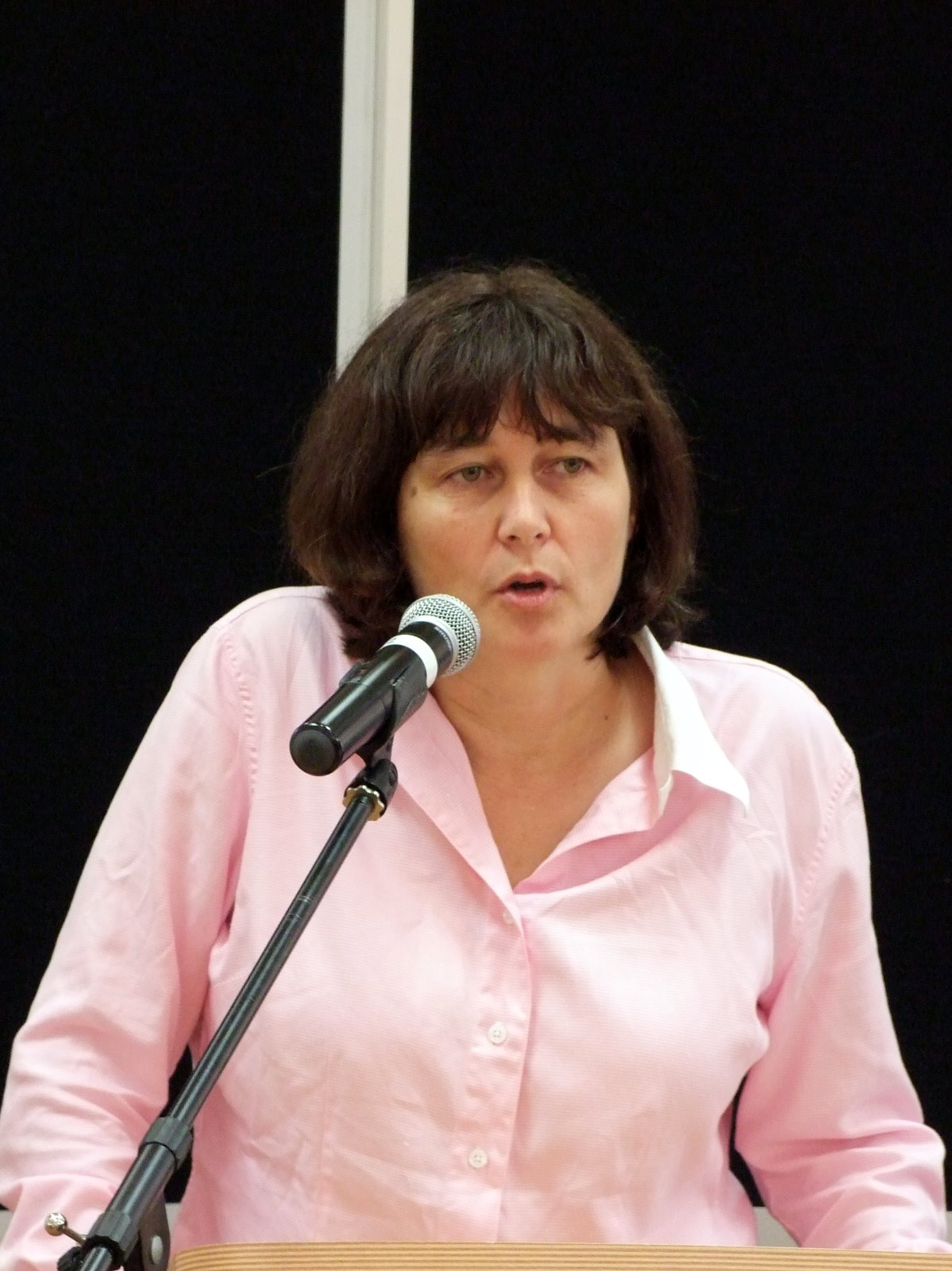 Helen Kelly of the NZCTU at the Bargaining Forum 2011